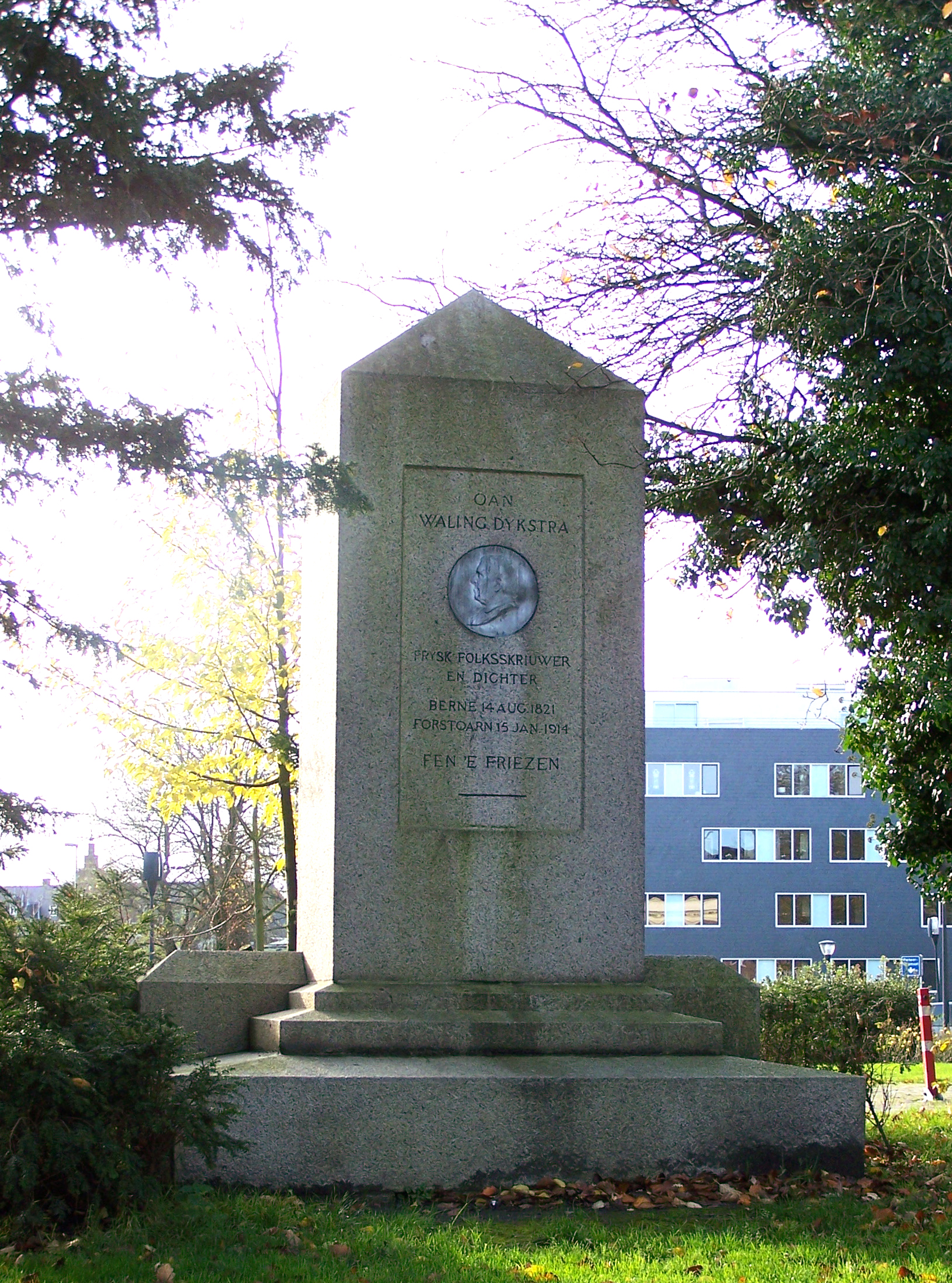 Monument with relief of the Frisian writer Walling Dykstra. Made by Pier Pander in 1916 and placed at the Noorderweg/Groeneweg in Leeuwarden.